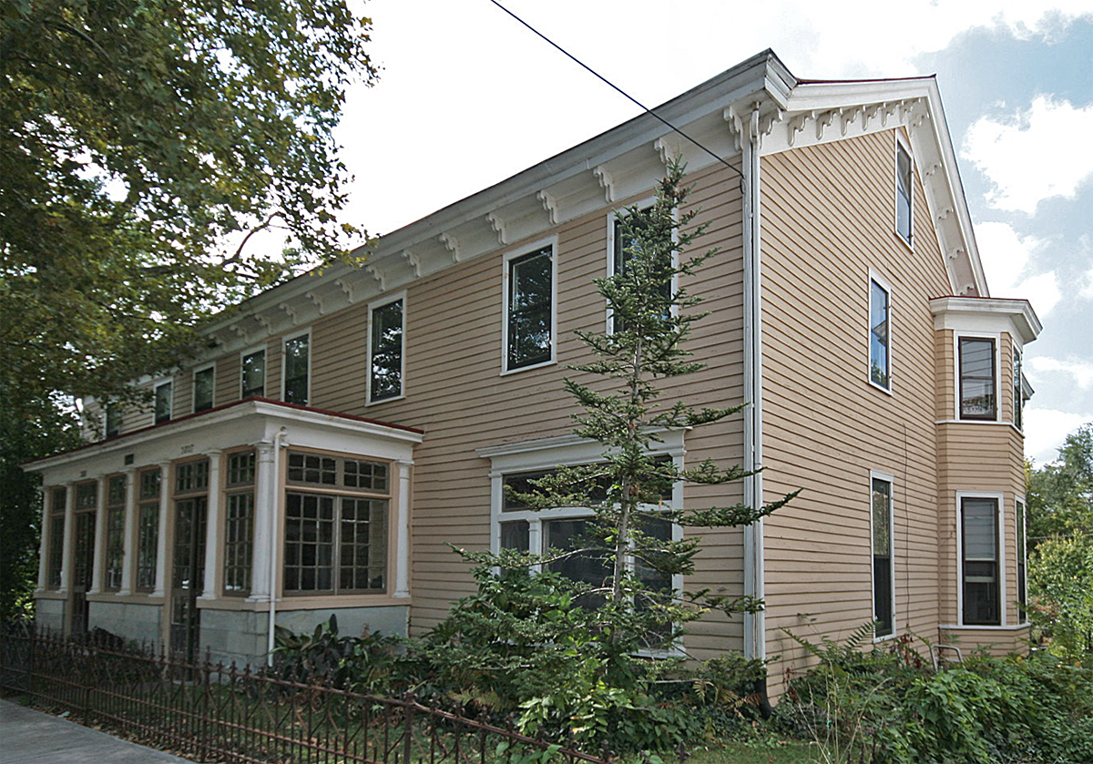 Kellogg House on Eastern Avenue in Cincinnati, Oh. Photo by Greg Hume